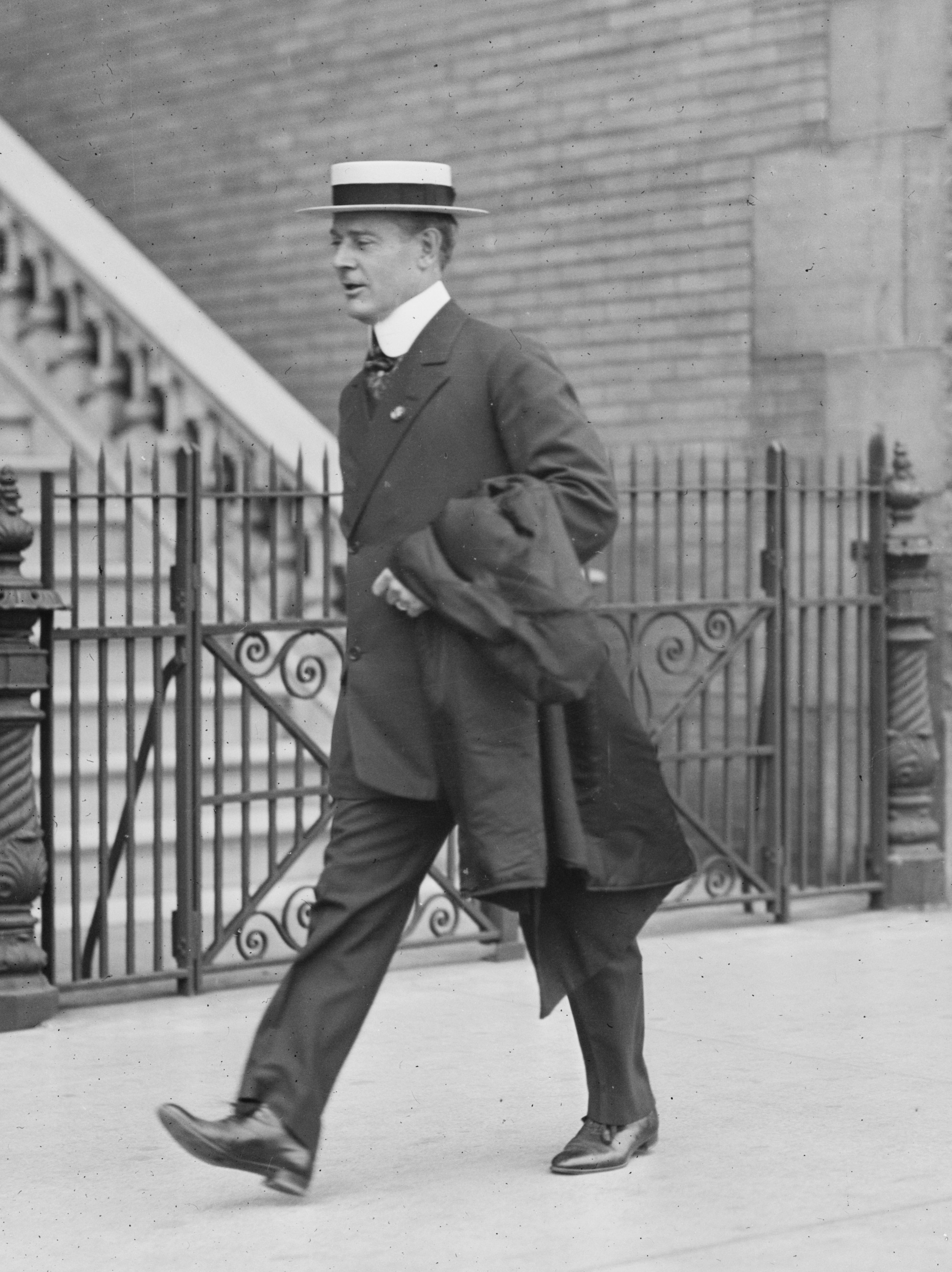 Albert J. Beveridge, American historian and United States Senator from Indiana